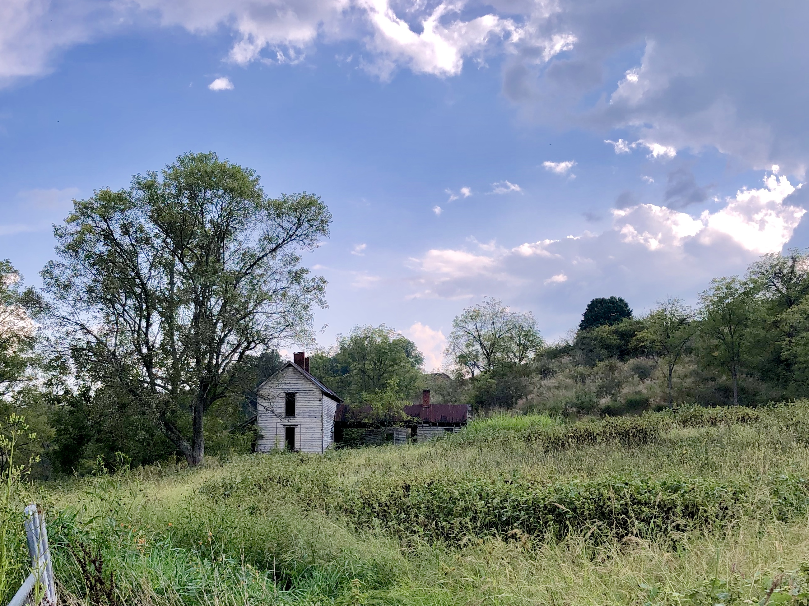 I have confirmed through several sources, including the National Register of Historic Places Nomination Form for the property, that this house is indeed the Thomas J. Murray House, located near Mars Hill, North Carolina. I removed the GPS coordinates, as the house could attract unwanted attention due to its dilapidated state, and the location is apparently "not to be published" despite it leaking online. The house was constructed about 1894 and is located on a large plot of land with two large barns adjacent to the house. It appears to have been abandoned several decades ago, and is in an advanced state of deterioration. There appears to be little hope for the future survival of the structure, which was listed on the National Register of Historic Places in 2005.